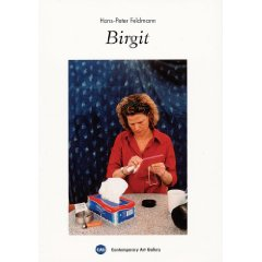 This artist's book by the influential but deliberately elusive Dusseldorf Conceptual photographer features a series of pictures of a woman putting on her makeup. A peer of Gerhard Richter, Joseph Beuys and Bernd and Hilla Becher, Feldman helped pave the way for artists like Richard Prince, Sherrie Levine and Christopher Williams.